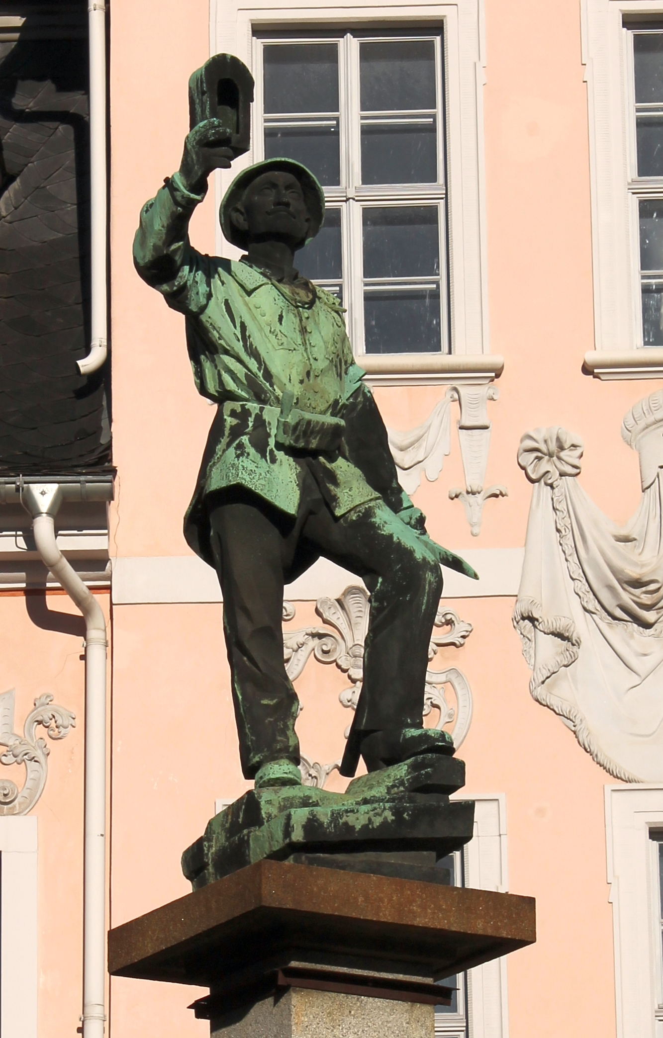 Miner's water well „Neuer Anbruch“ in Schneeberg, Ore Mountains, Saxony, Germany.